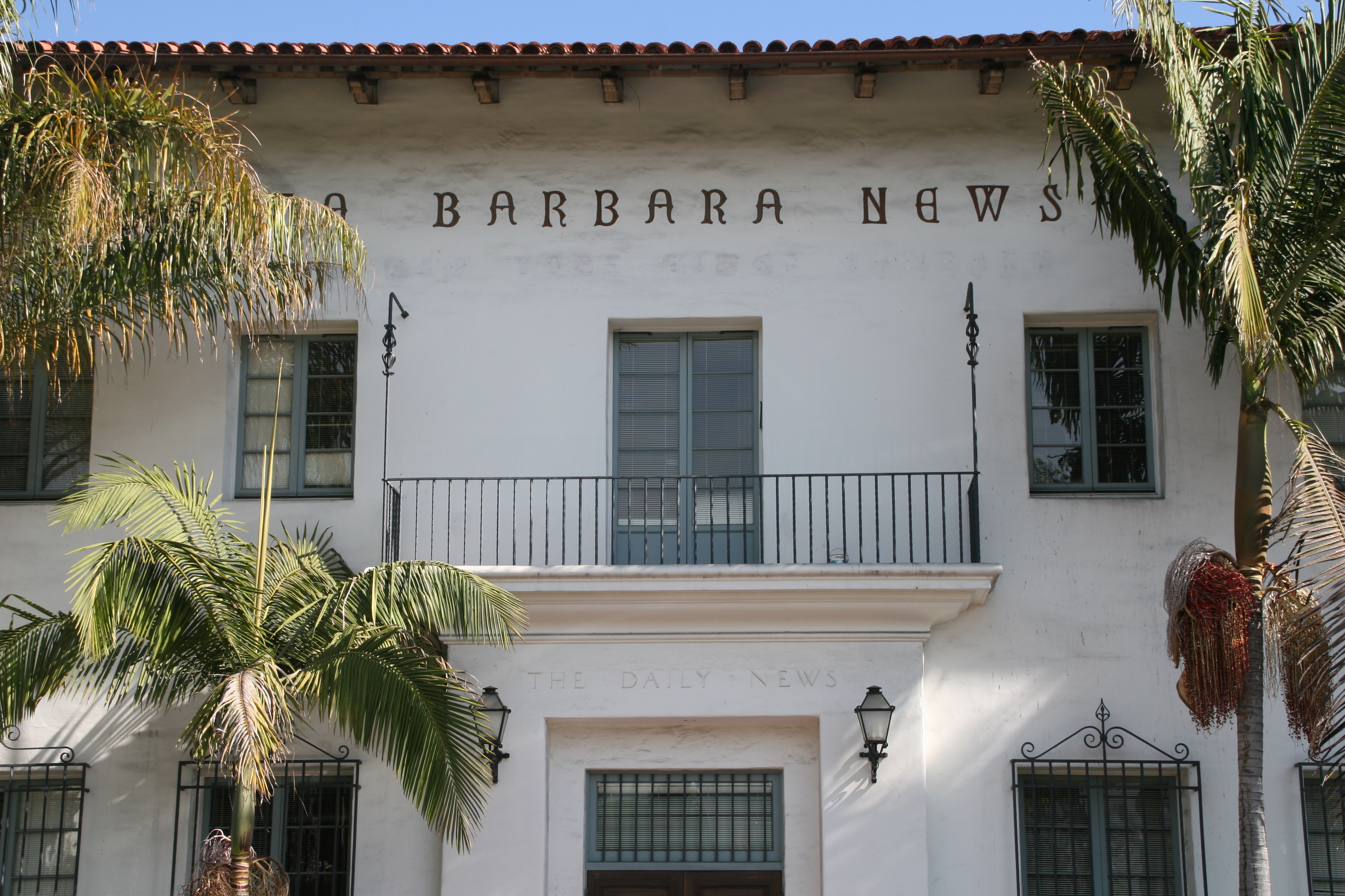 Author: Doc Searls URL